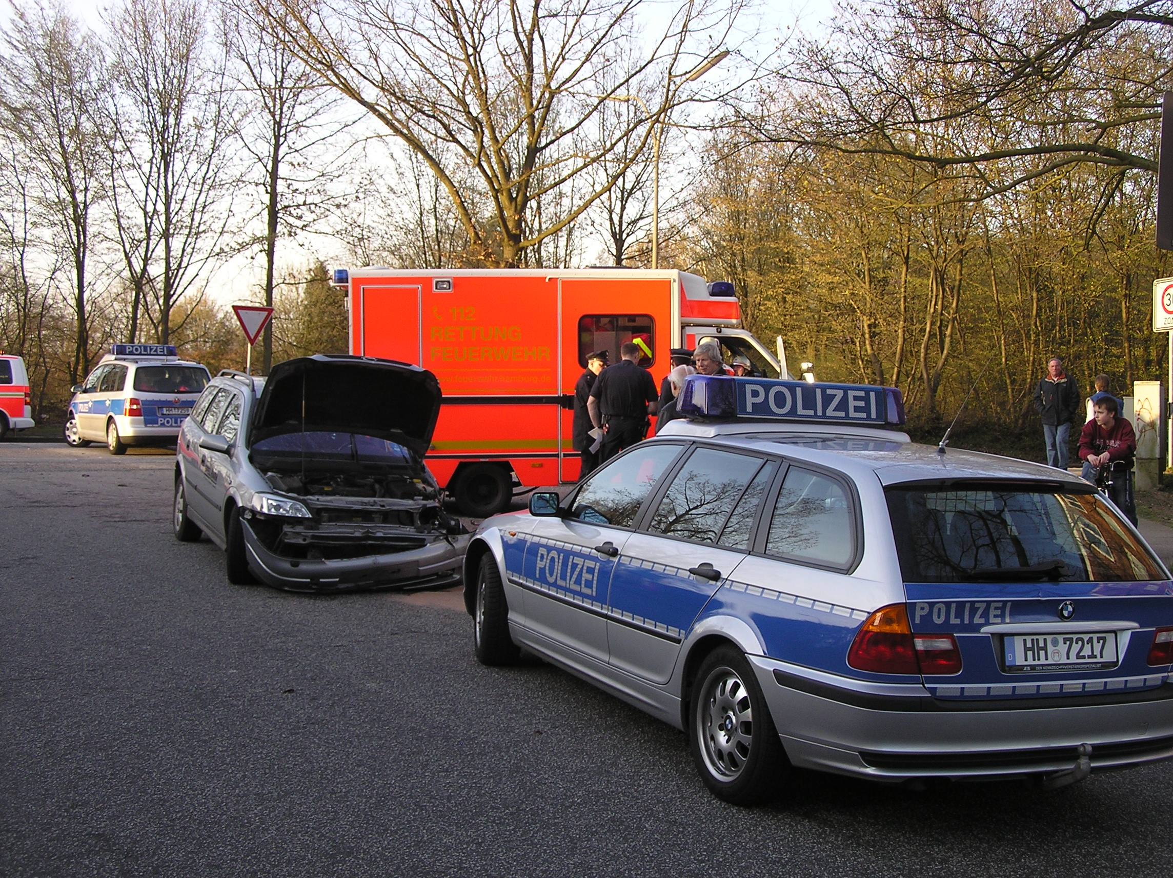 Accident in Hamburg-Bergedorf